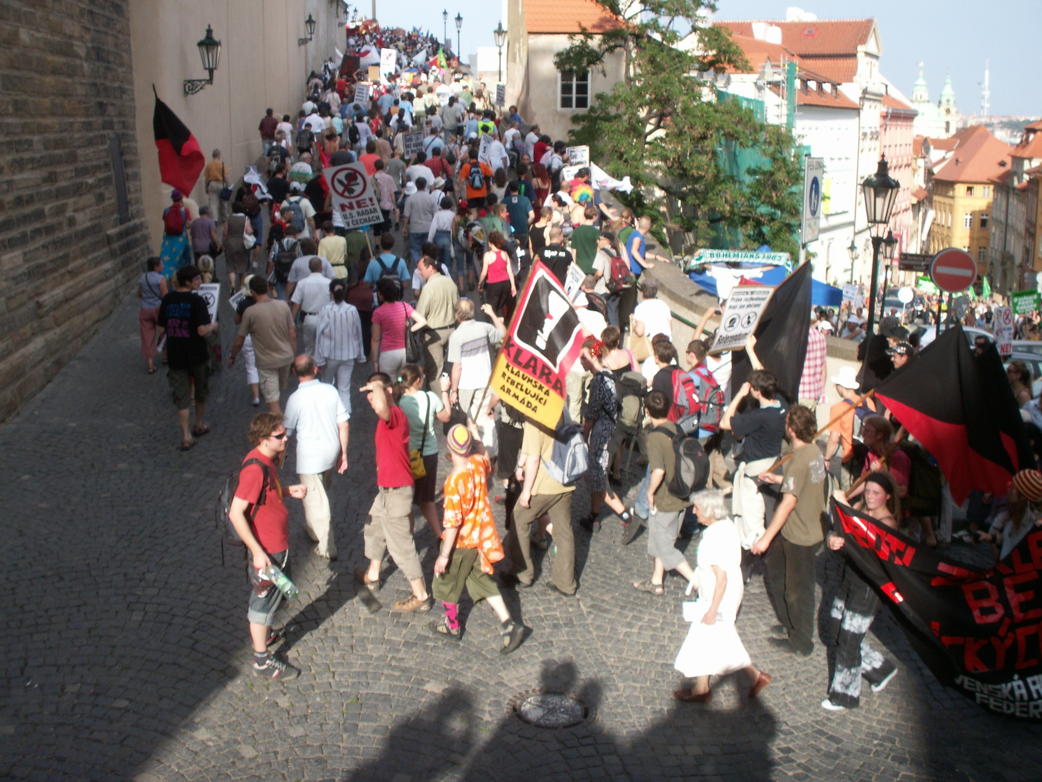 Protest march from the Wenceslav square to the Prague Castle organized by the No bases (Ne základnám) iniciative on 26th May 2007, crossing of Neruda street and Ke hradu street